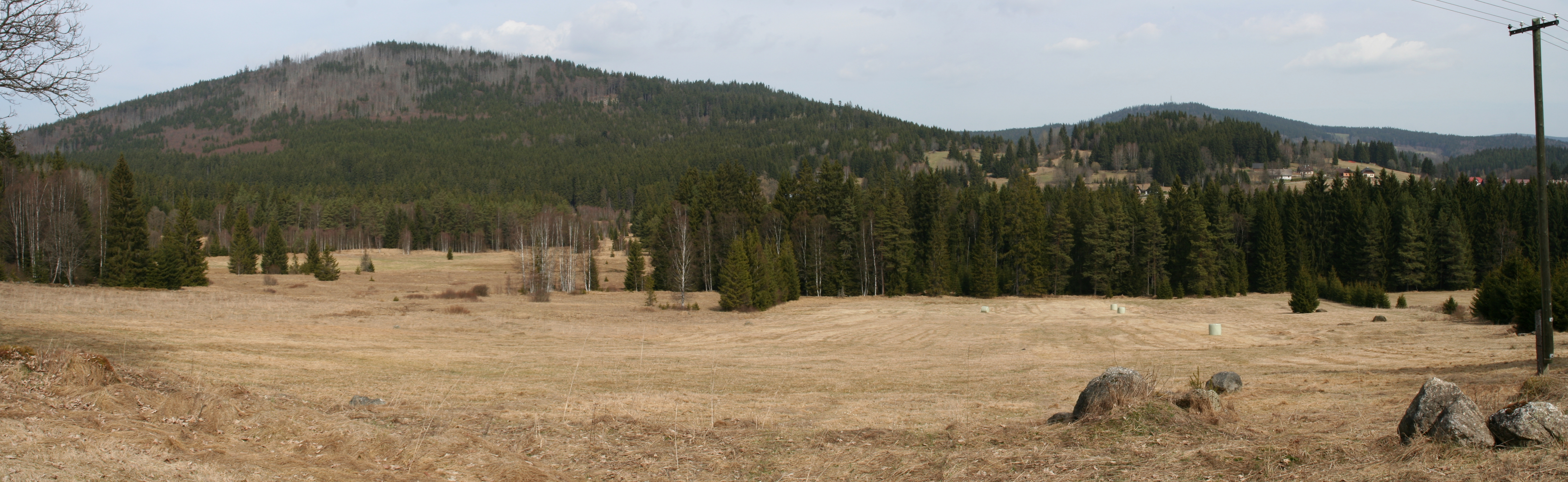 Natural monument Strážný-Pod Obecním lesem in Prachatice District, Czech Republic